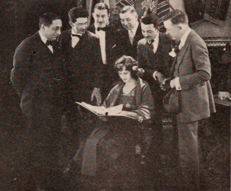 Still from the production of Harriet and the Piper (1920) with actress Anita Stewart seated and reading the script, producer Louis B. Mayer, director Bertram Bracken, actors Ward Crane and Charles Richman, Stewart's actor husband Rudolph Cameron, and screenwriter Monte M. Katterjohn, on page 43 of the June 12, 1920 Exhibitors Herald.